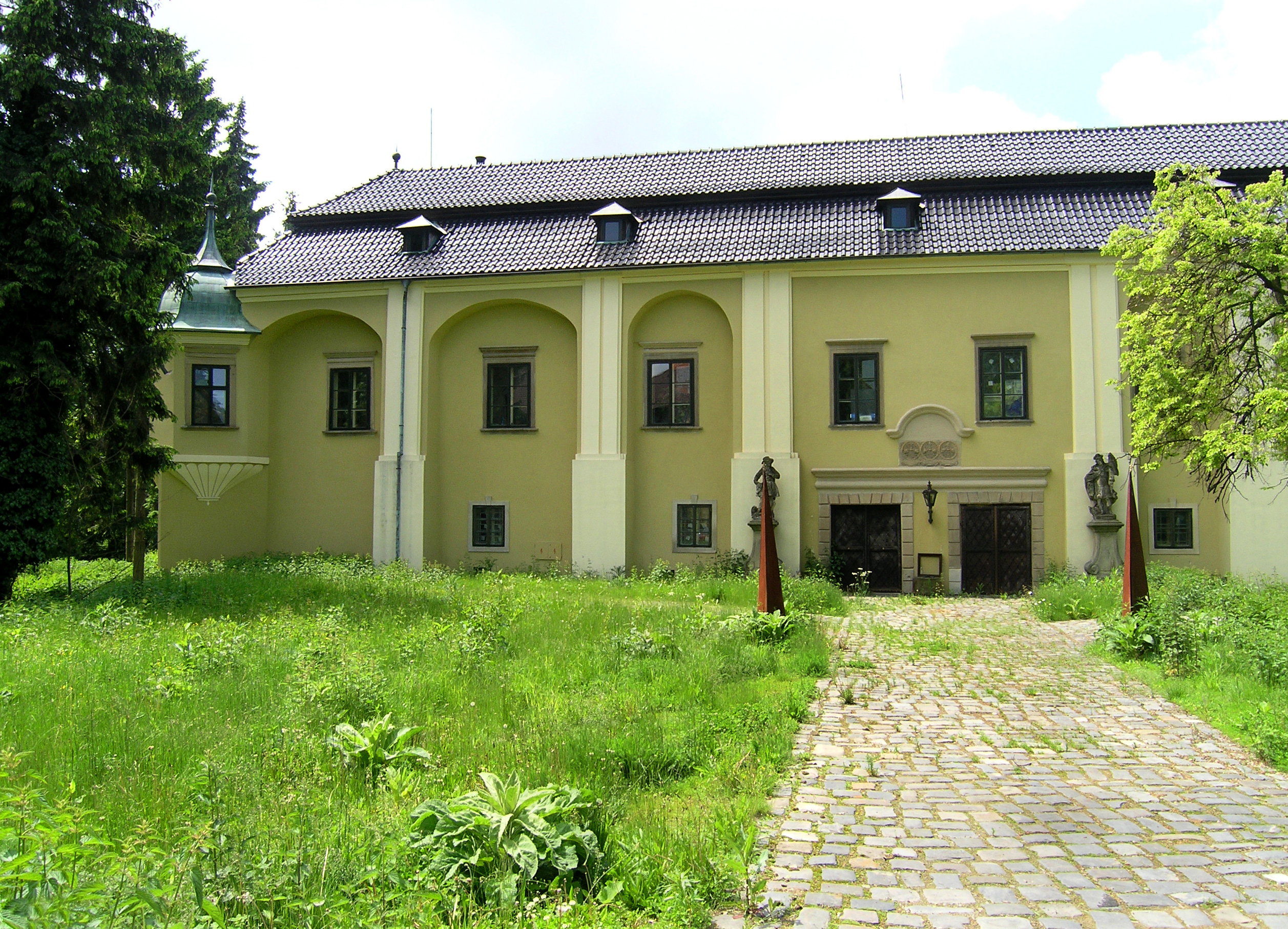 Morkovice Castle in Morkovice-Slížany, Czech Republic